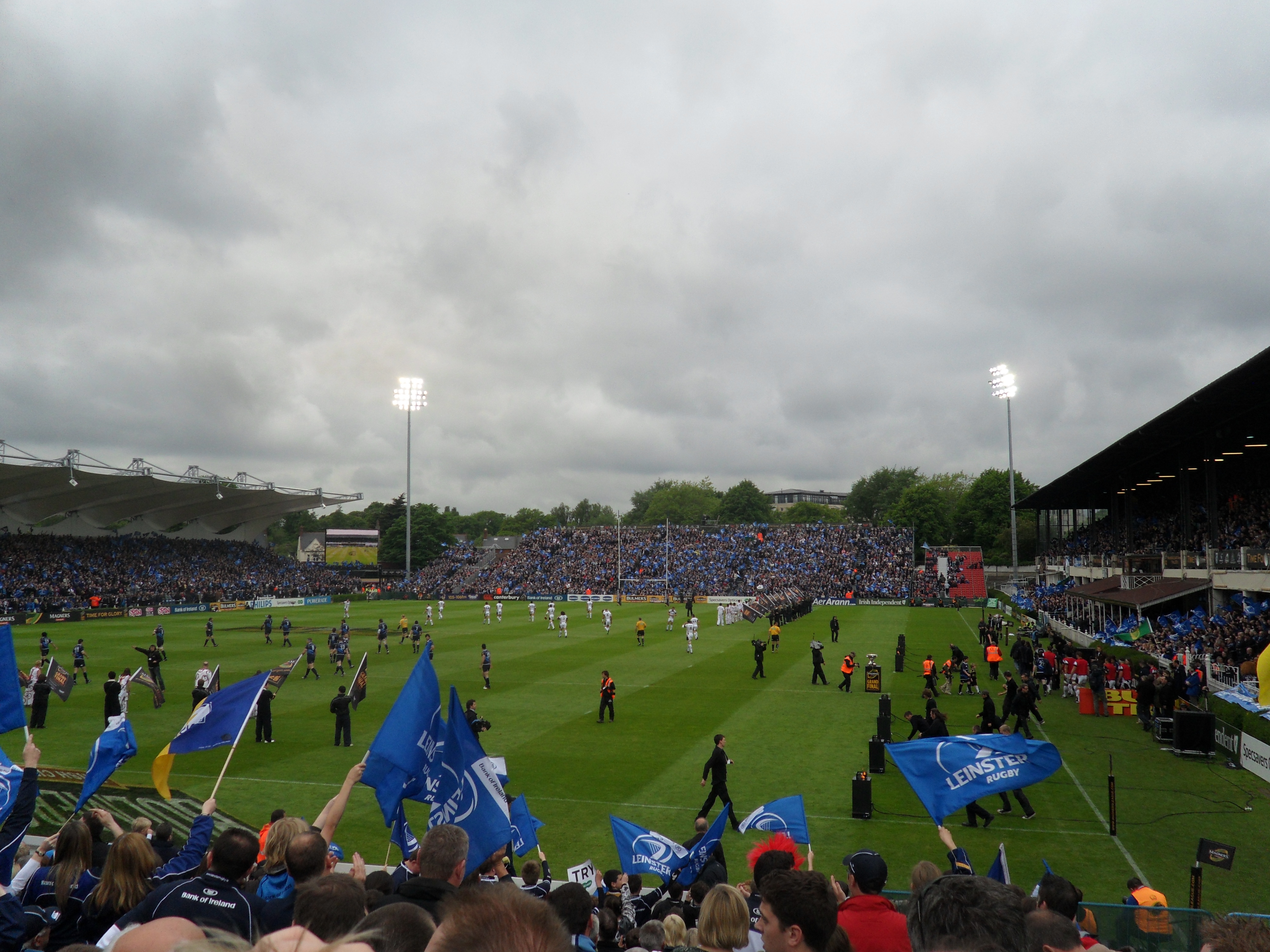 The Leinster fans and flags. Leinster Rugby. Leinster Rugby vs Ospreys. Le 29 mai 2010 Ospreys 17 - 12 Leinster in Royal Dublin Society, Dublin.